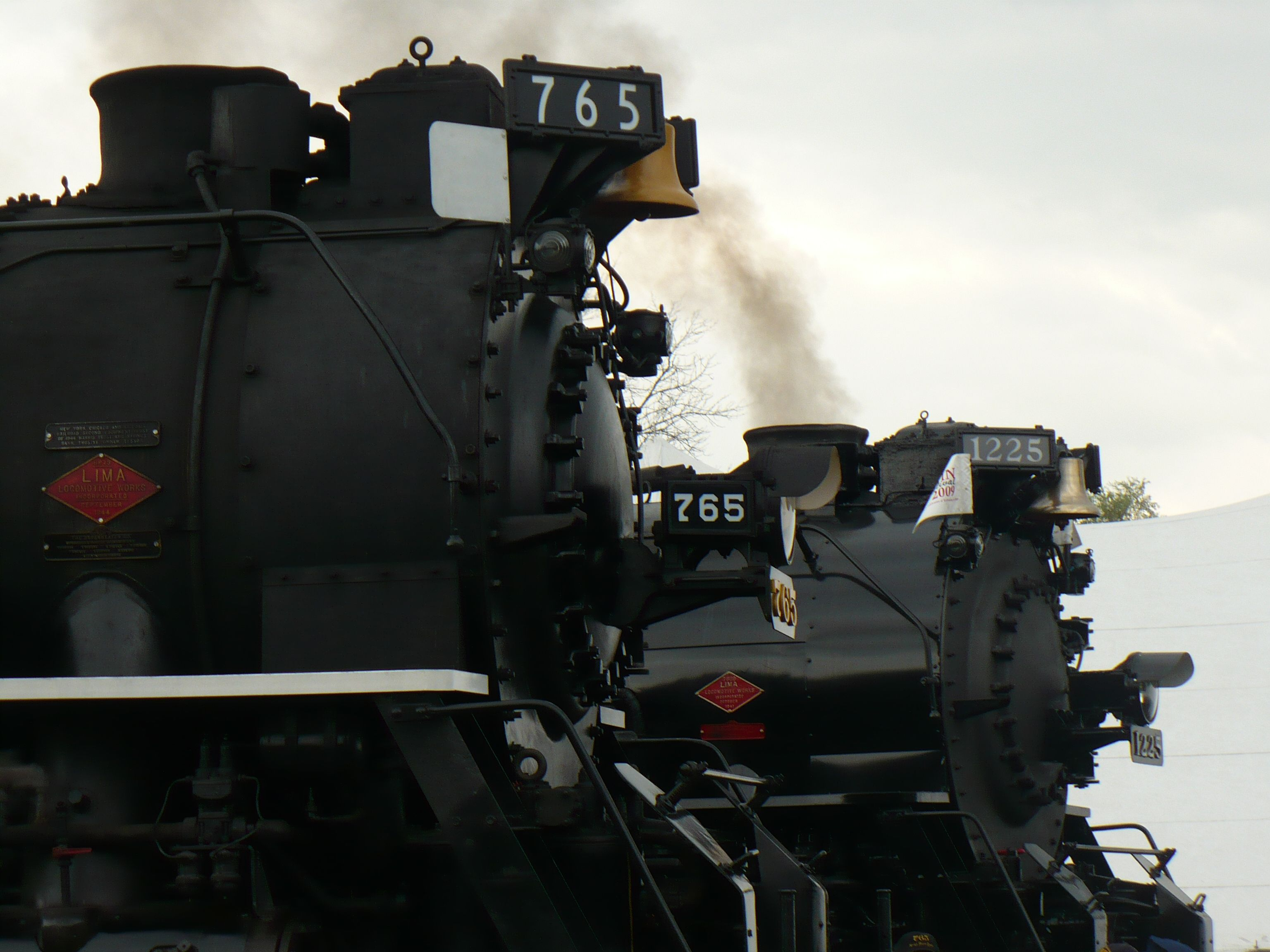 The NKP 765 and PM 1225 sit side by side before the start of TrainFestival 2009